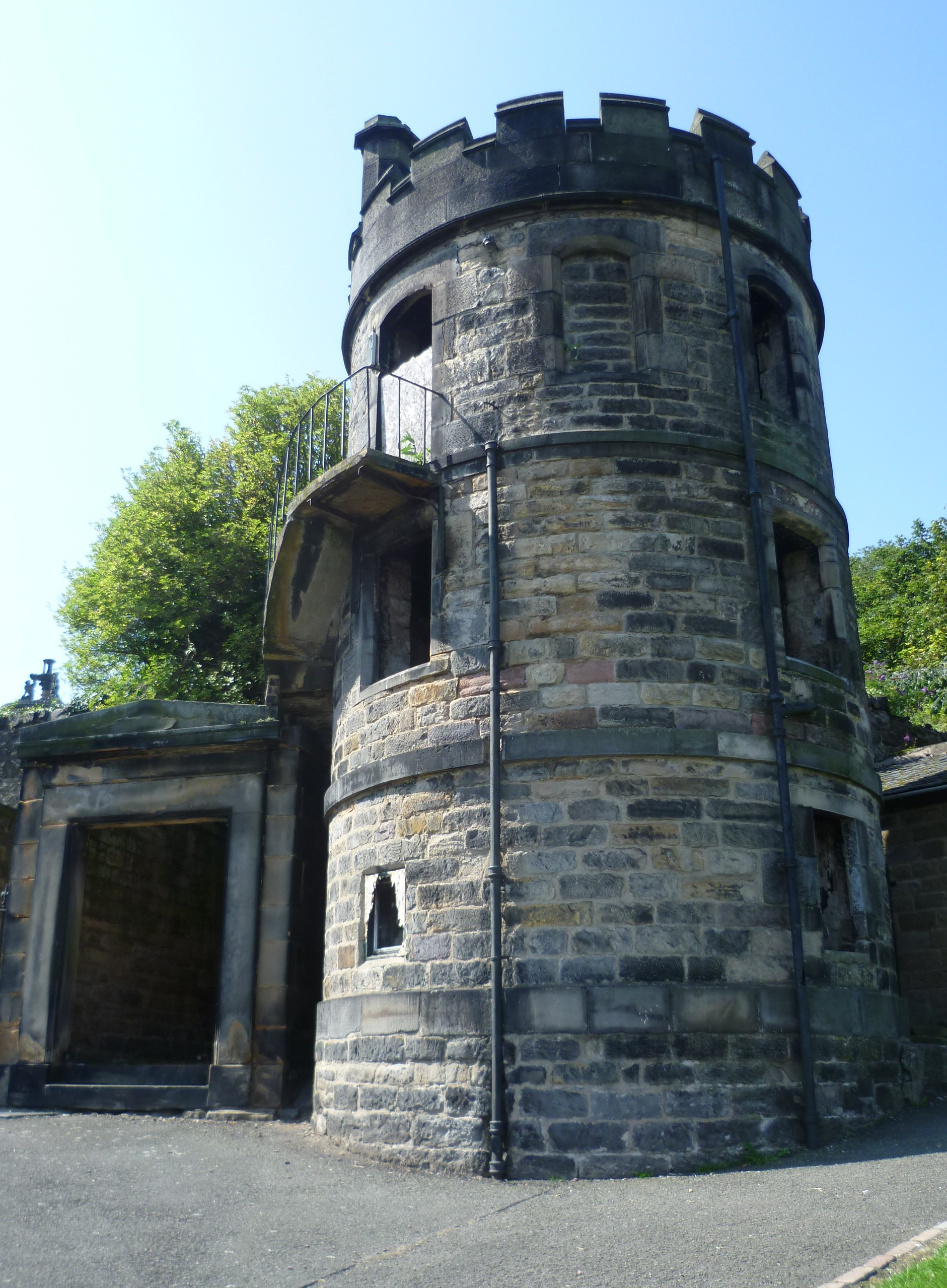 Graveyard watchtower, New Calton Burying Ground, Edinburgh